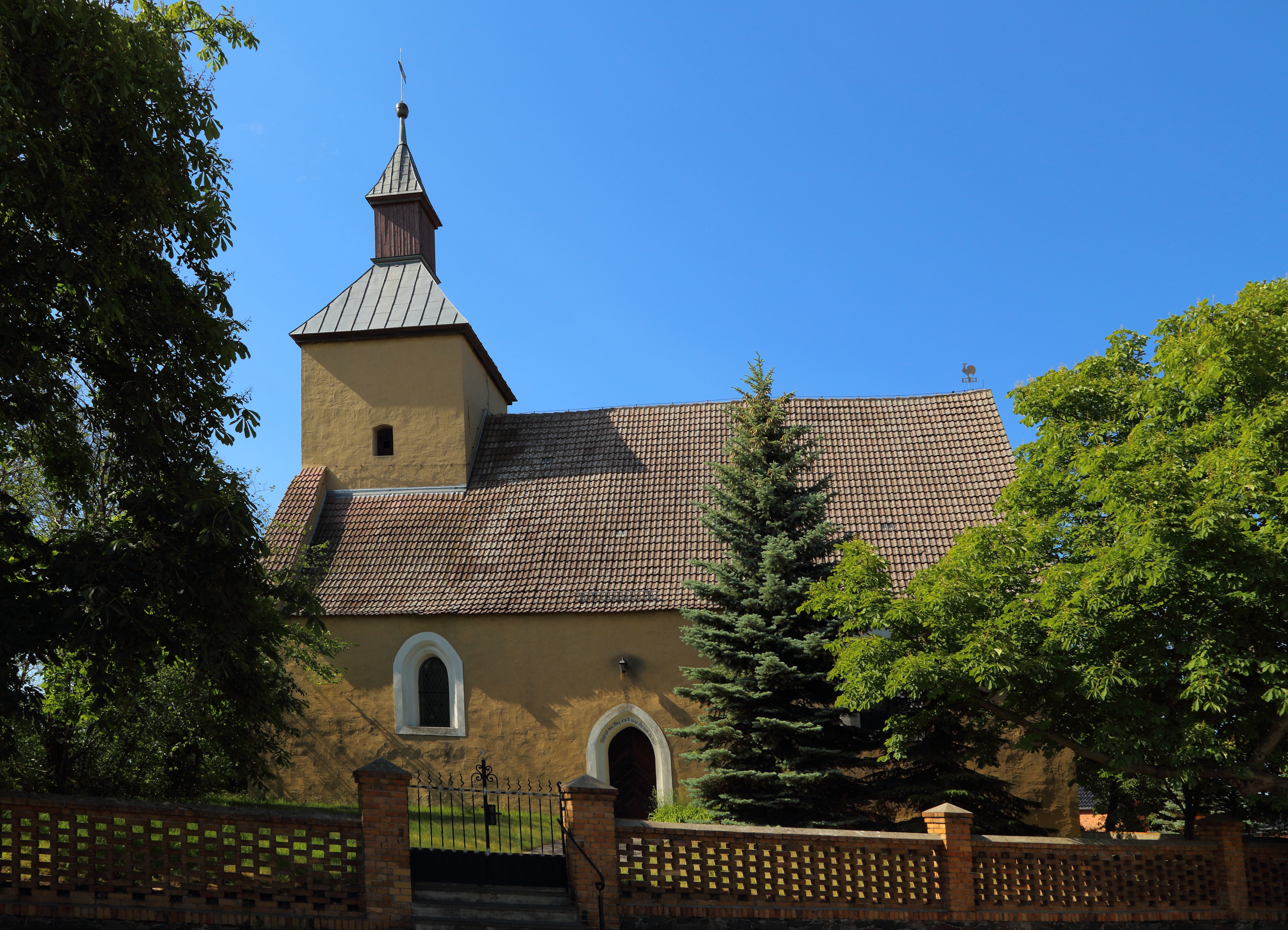 Protestant Village Church (Dorfkirche) of Leibchel, a district of Märkische Heide, Landkreis Dahme-Spreewald, Brandenburg, Germany.